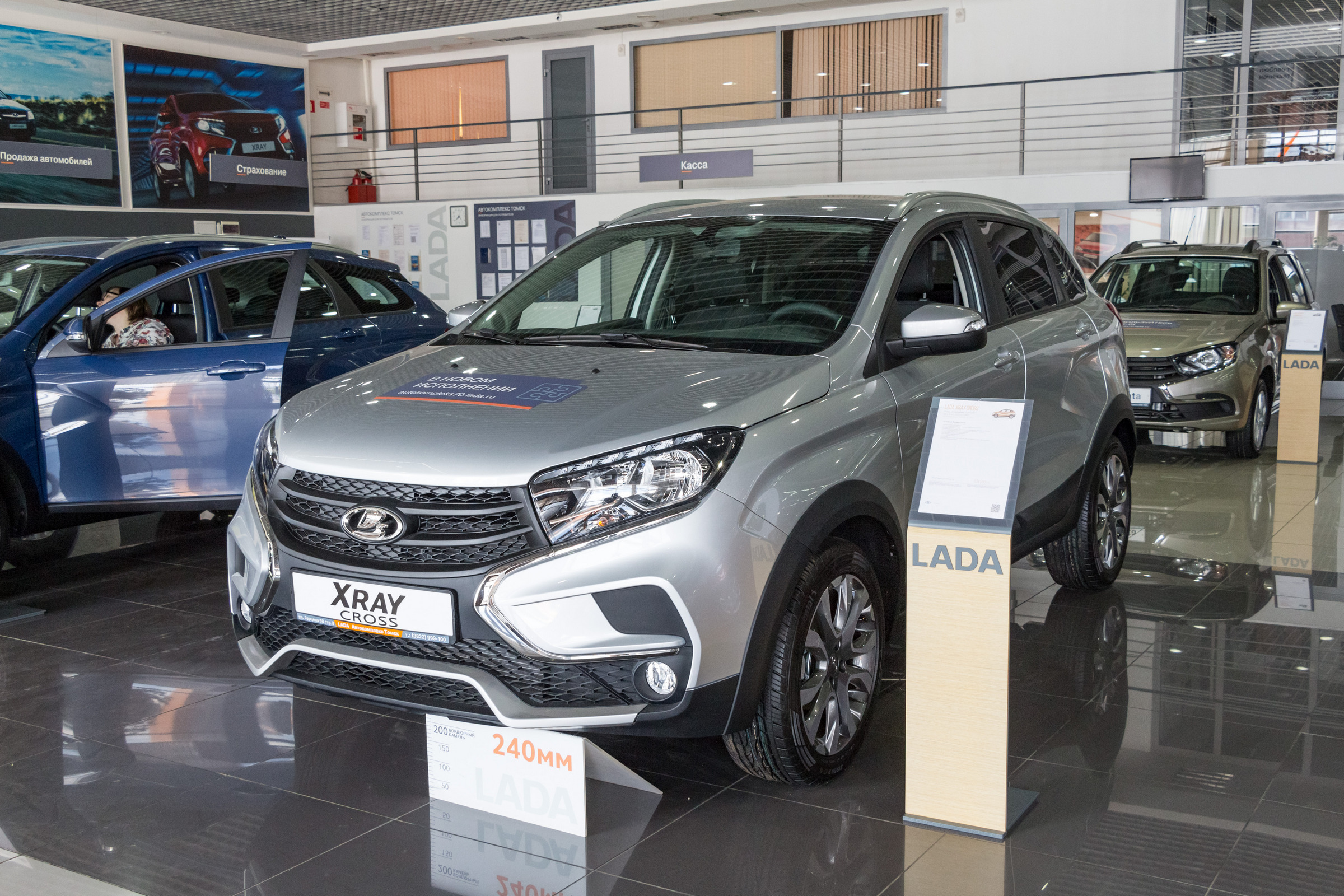 Lada show room in Tomsk, Russia. Lada XRAY Cross.